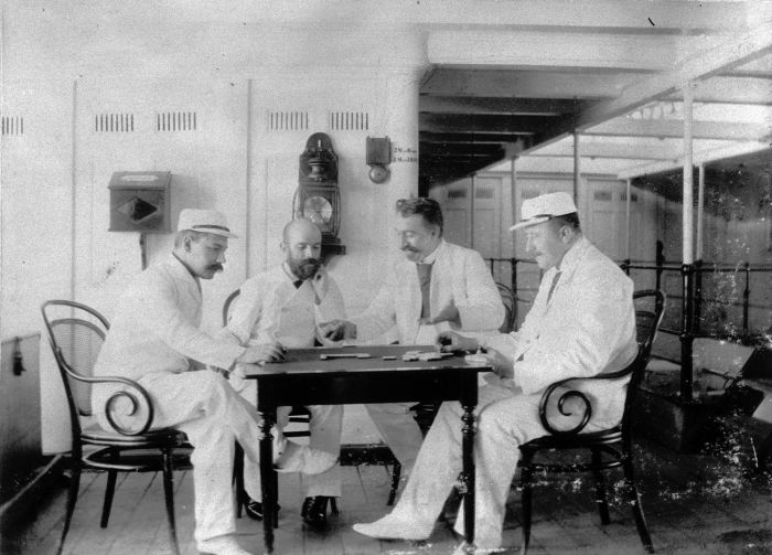 Crew playing domino on board of a ship